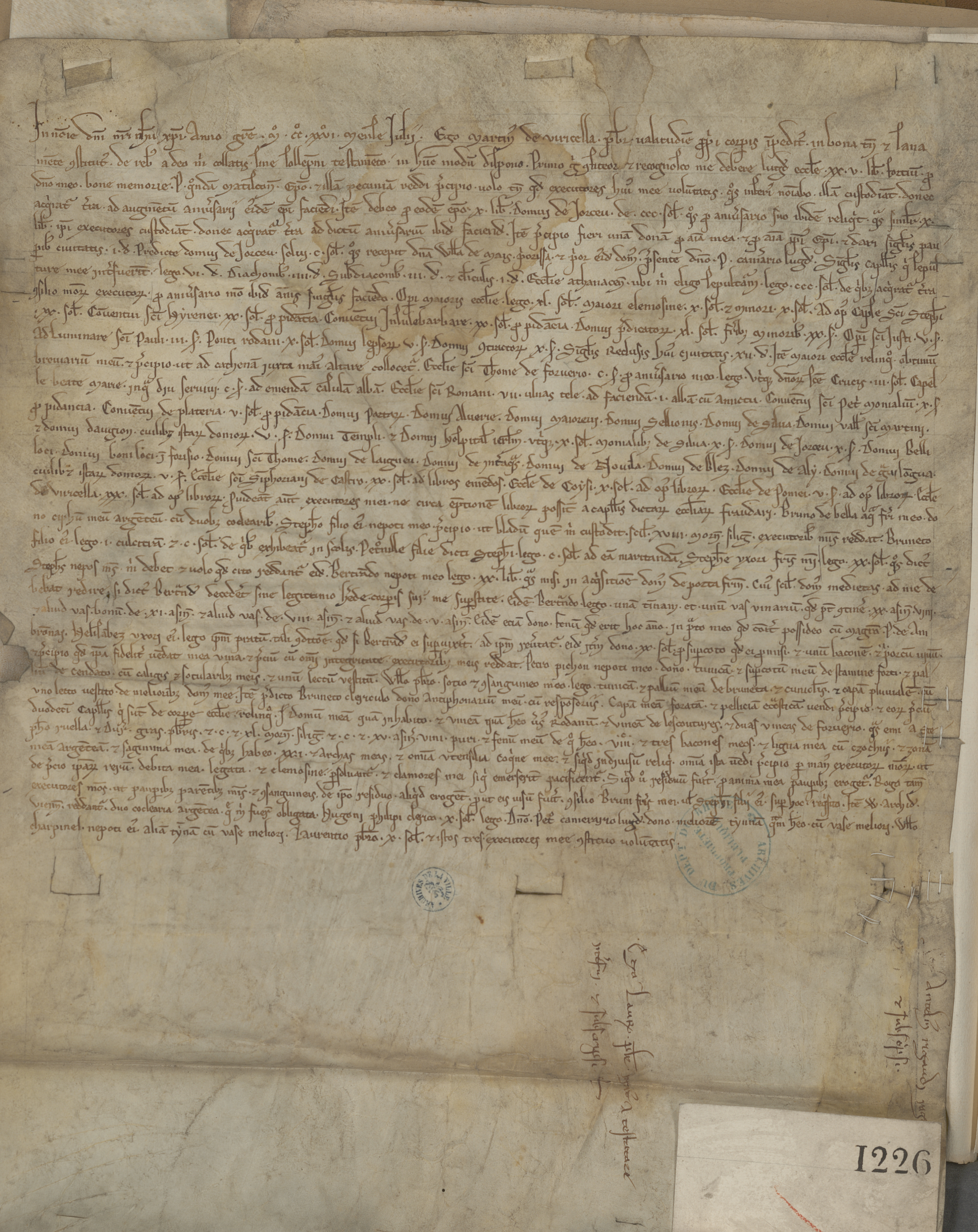 Martin de Viricelle's will, edited in 1226. Kept by the Rhône's departmental archives (Lyon, France) under code: 10 G 1001.